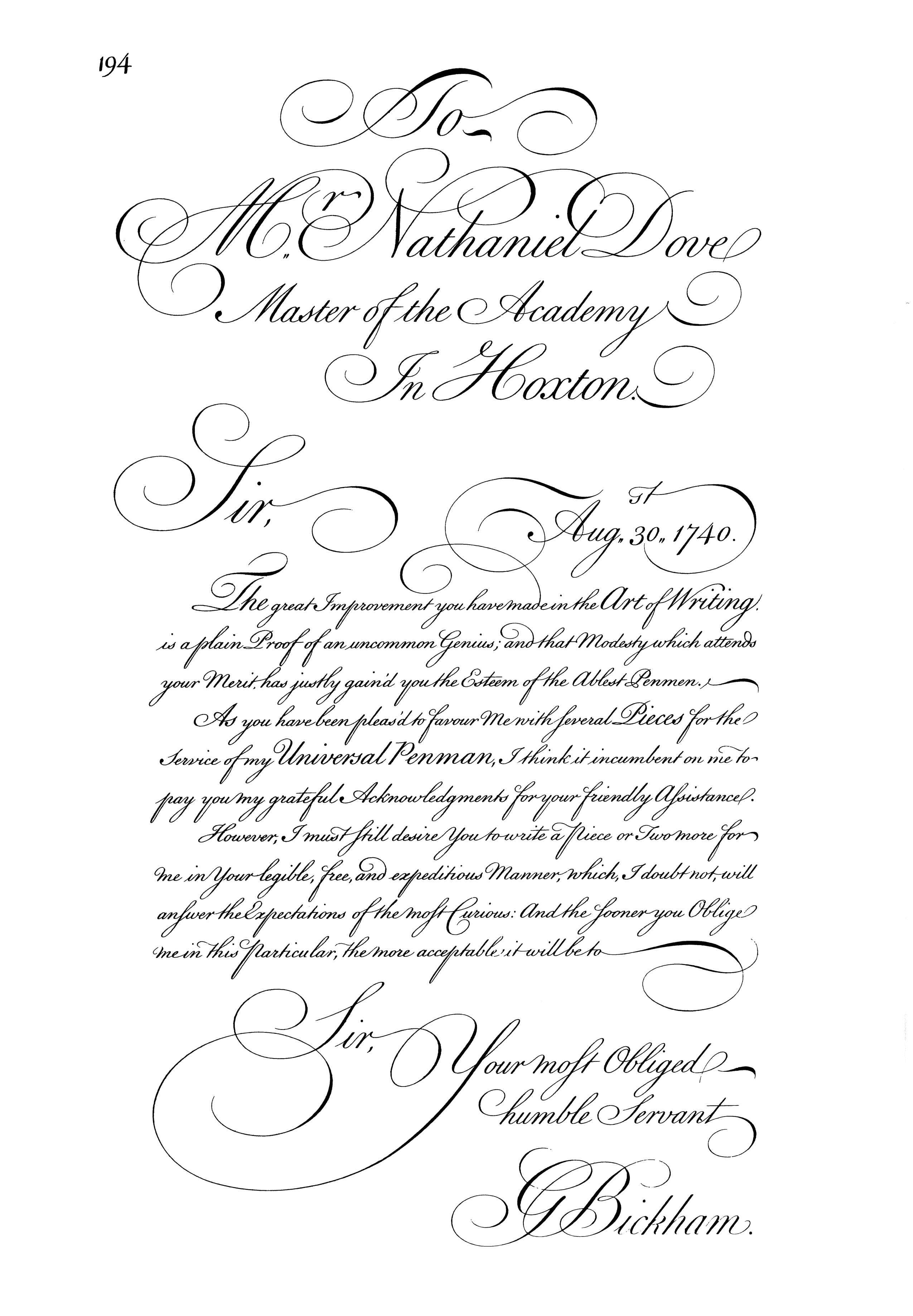 Page 194 of The Universal Penman, first published c. 1740–1741. An example of George Bickham's English roundhand lettering and engraving skills.